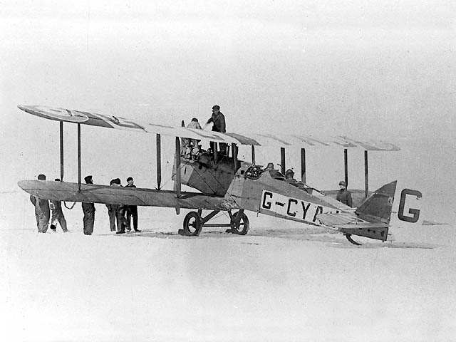 de Havilland (Airco) DH9A